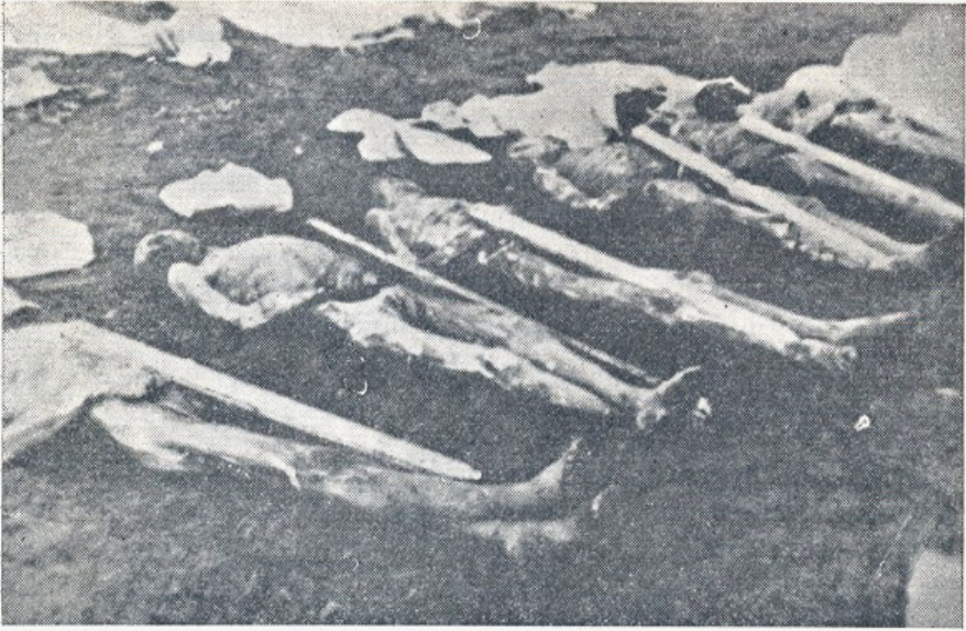 Source: Rabski zbornik, p.59